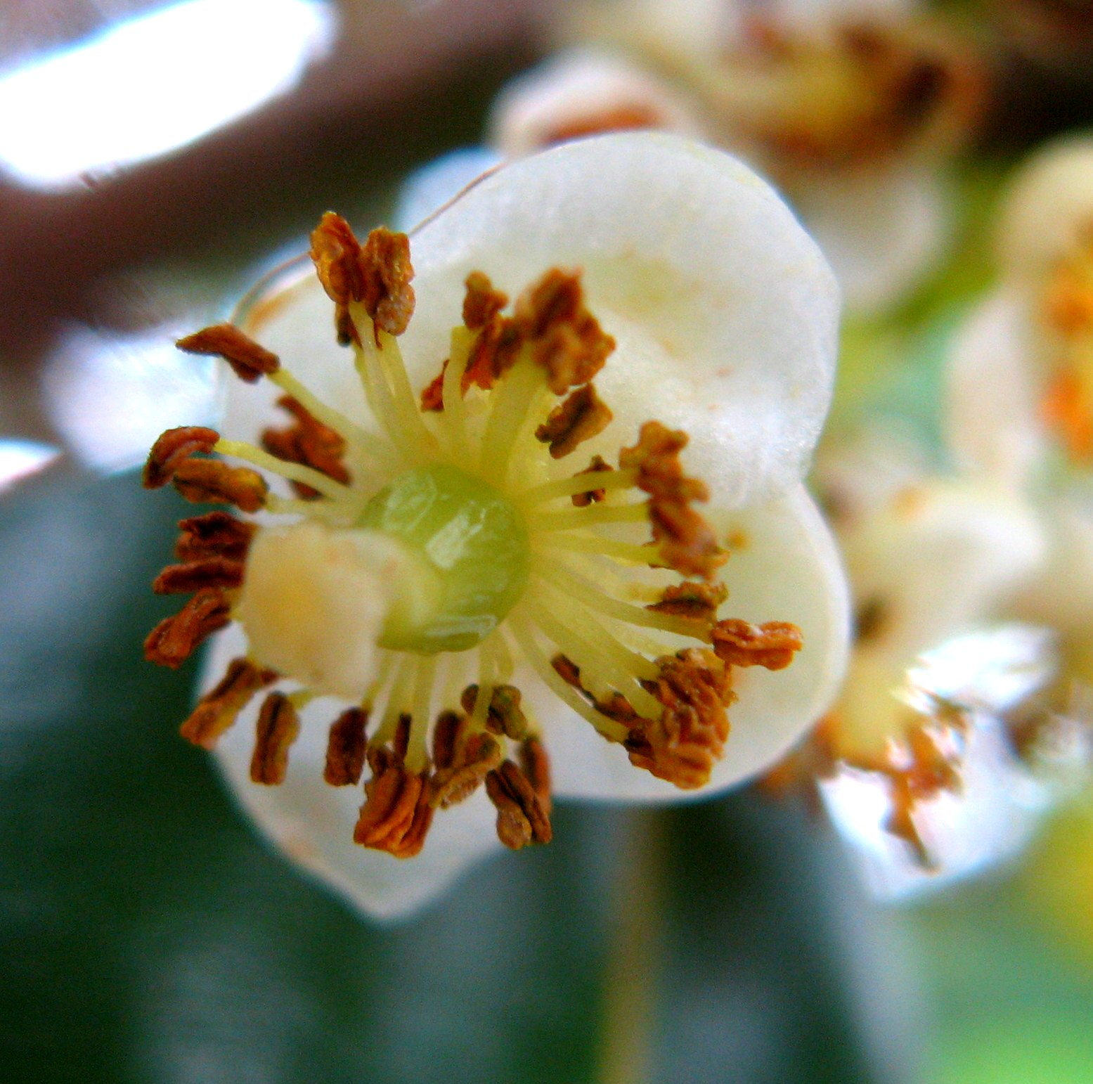 Guanandi Jacareuba (Calophyllum brasiliense) fecunded flower. Bot. Garden Sao Paulo. A brazilian an L. American native tree.